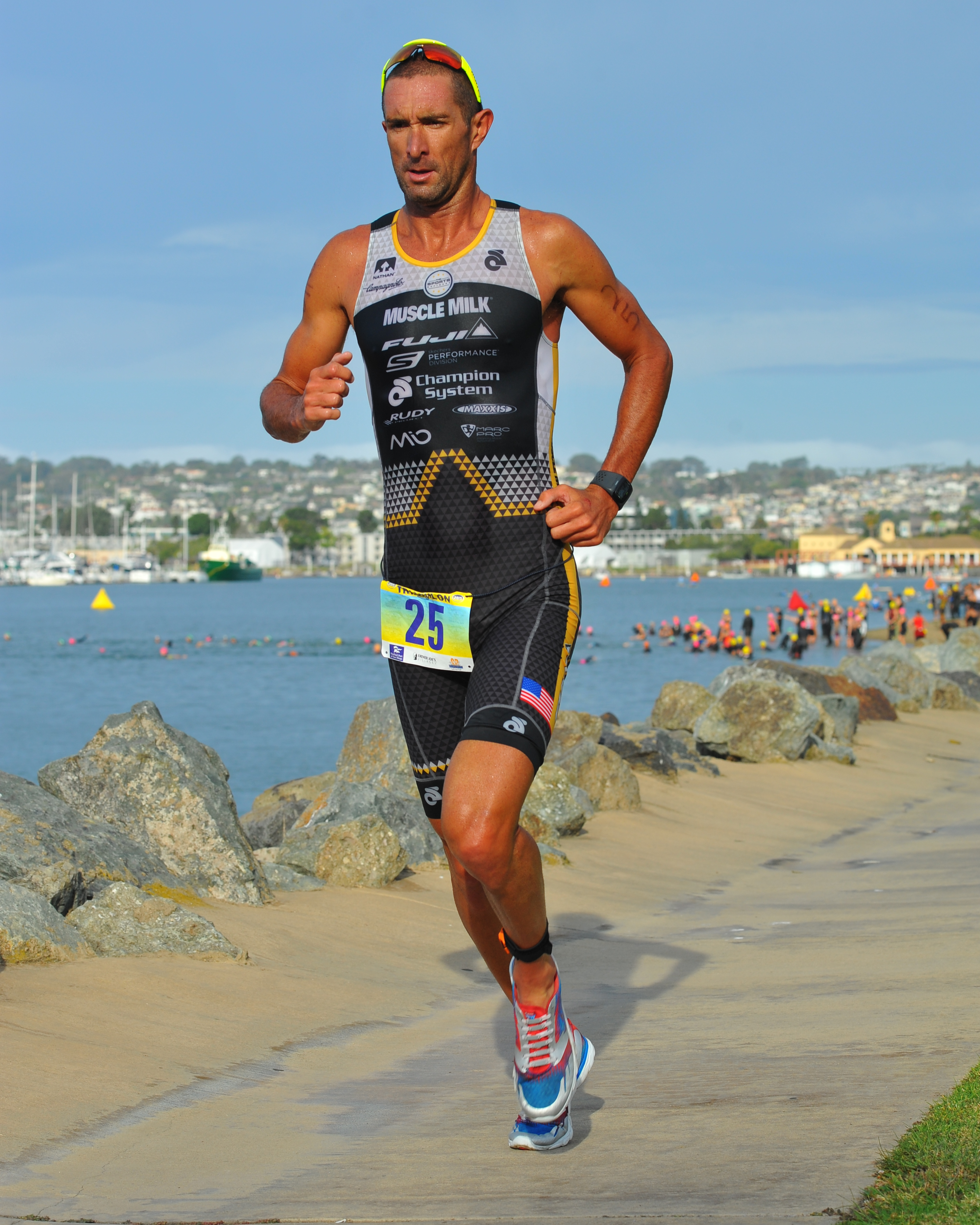 Matthew Reed, age 39, runs in the San Diego International Triathlon, International distance, in the Elite/Pro Men division. Reed finished 2nd overall out of 535 participants. His overall time was 01:32:21 with a swim time of 00:11:07, bike time of 00:44:47 and run time of 00:34:13. IXE_1507_cr